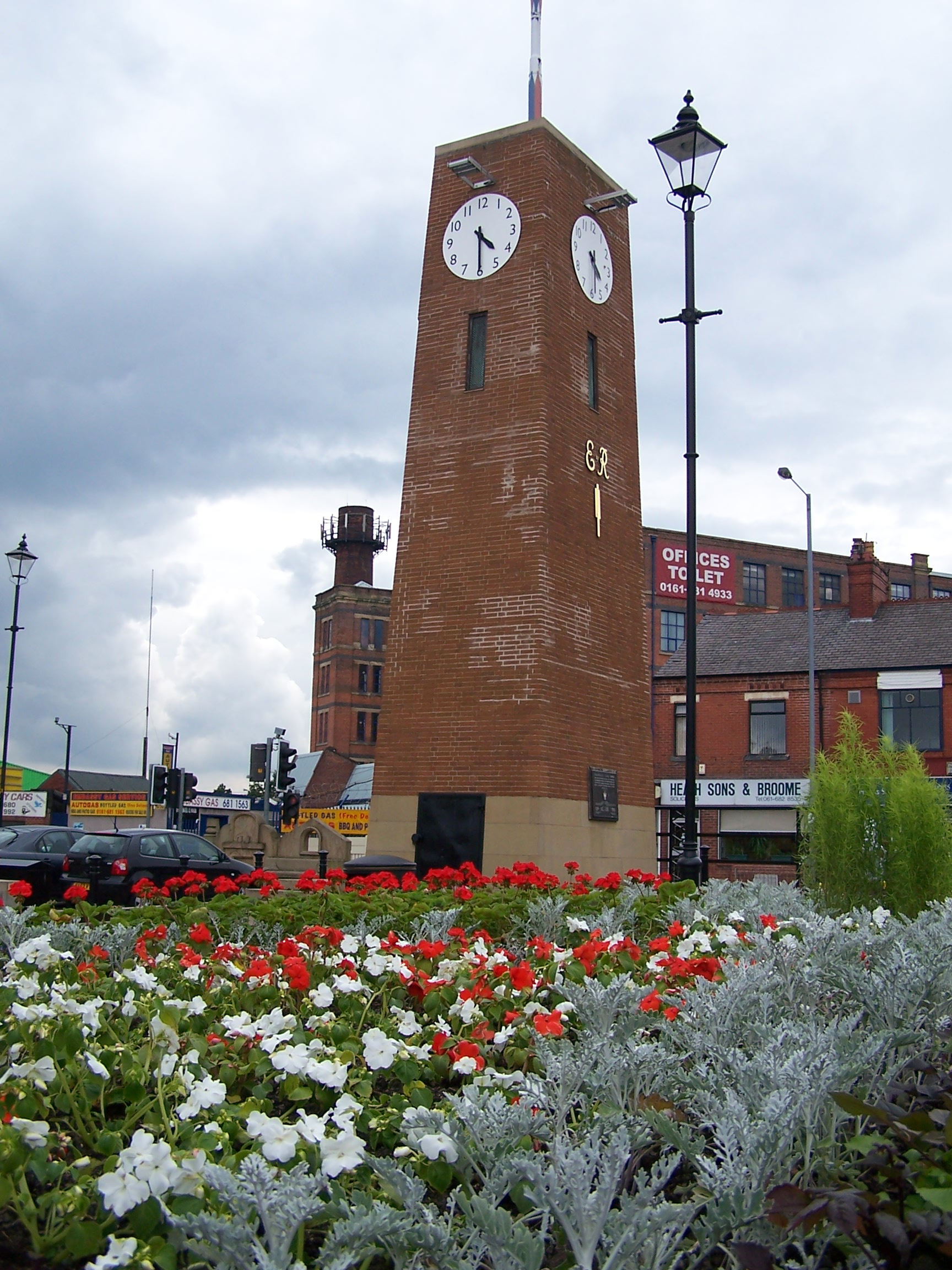 I took this photo myself, to appear on the website.